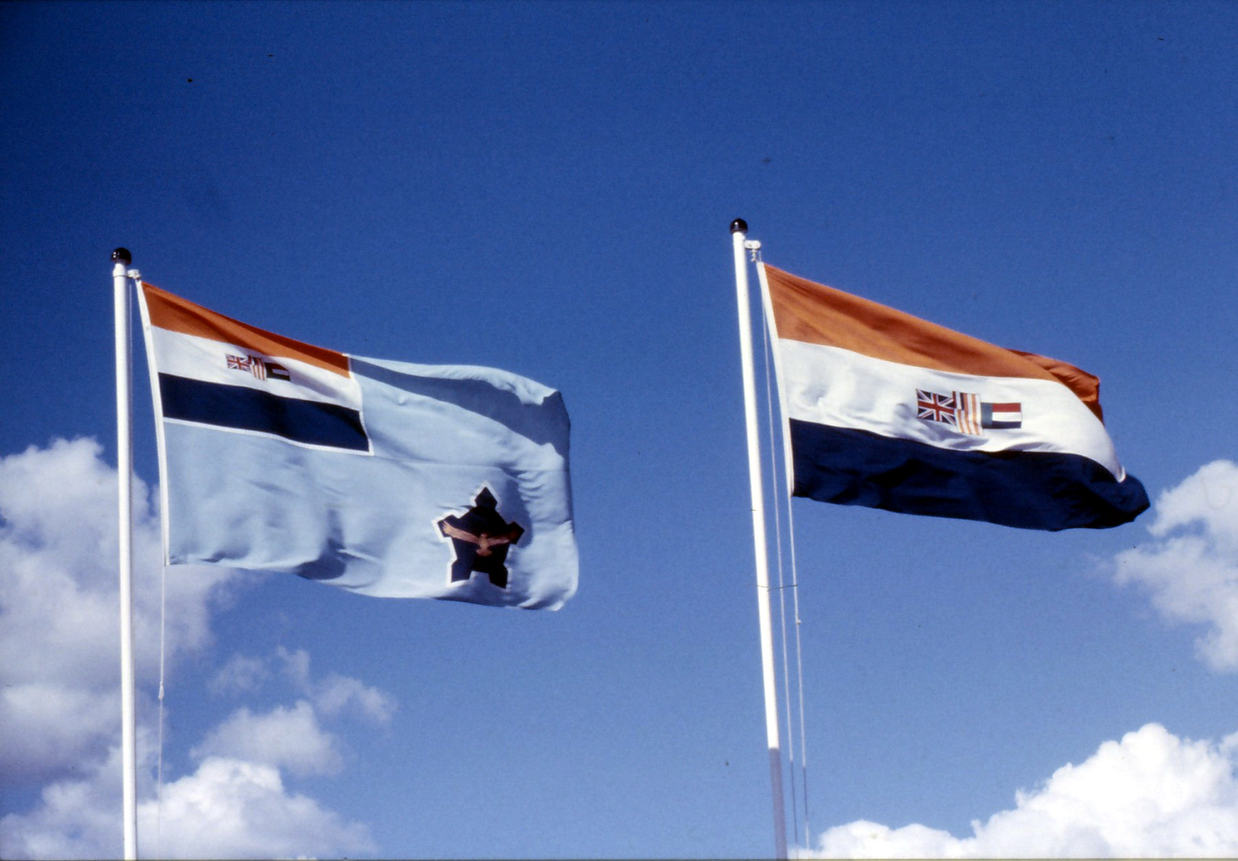 RSA and SAAF flags at the Harvard 50th anniversary air show at CFS Dunnottar